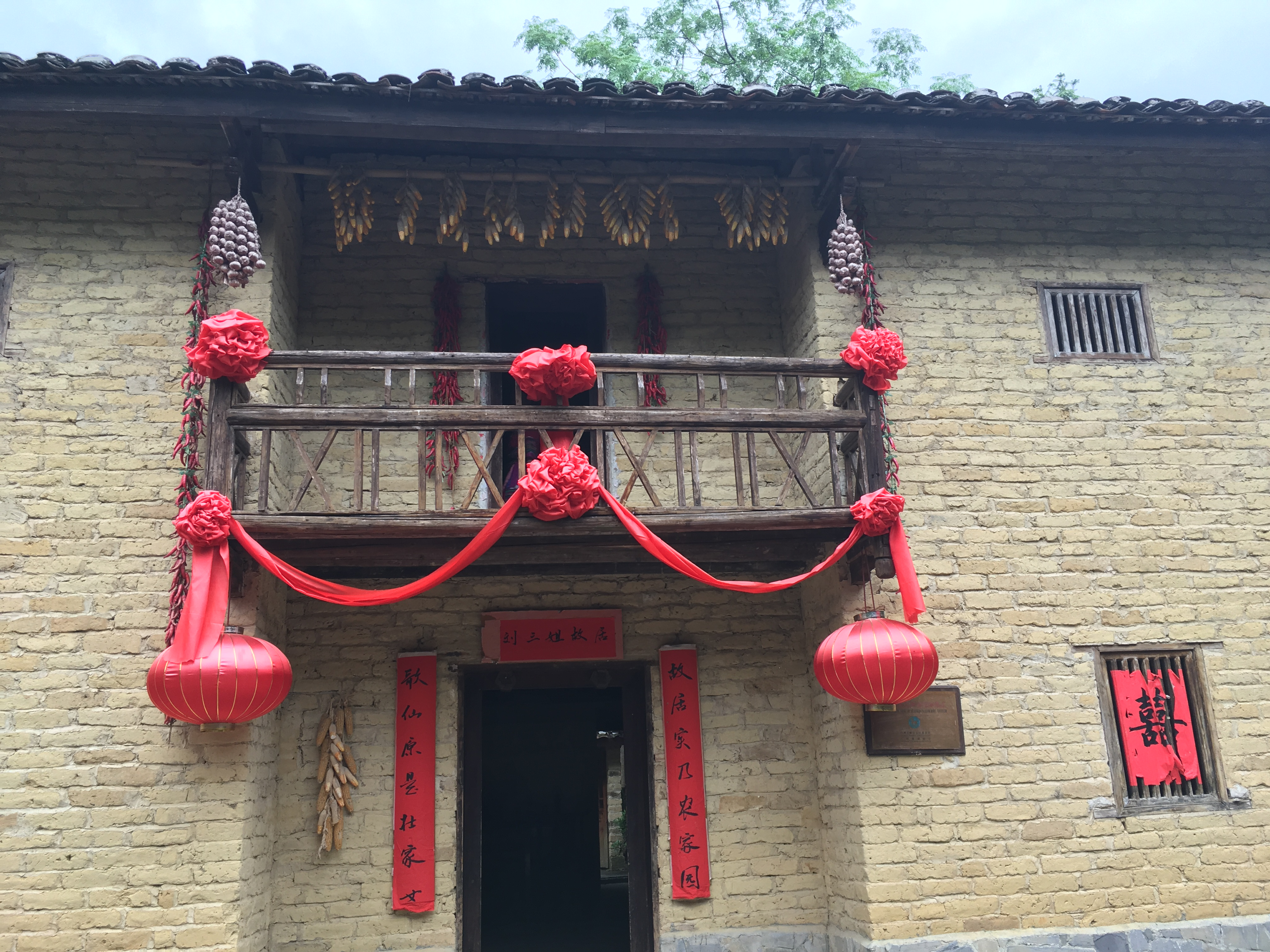 Reconstructed rural style building at Liu Sanjie Park.